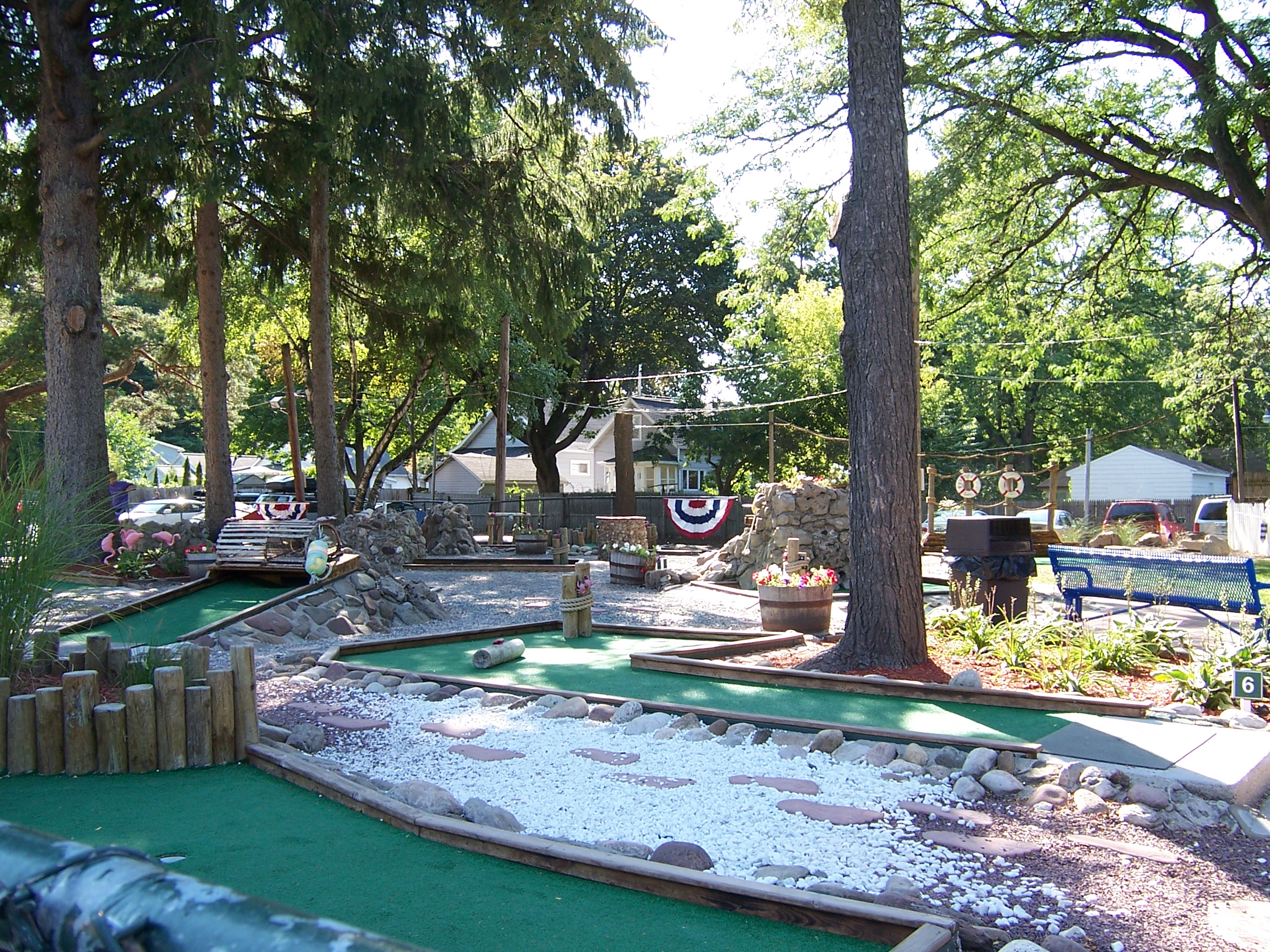 Parkside Whispering Pines miniature golf course, which opened in 1930 as Tall Maples Miniature Golf Course and is listed on the National Register of Historic Places. It is located in Irondequoit, New York.